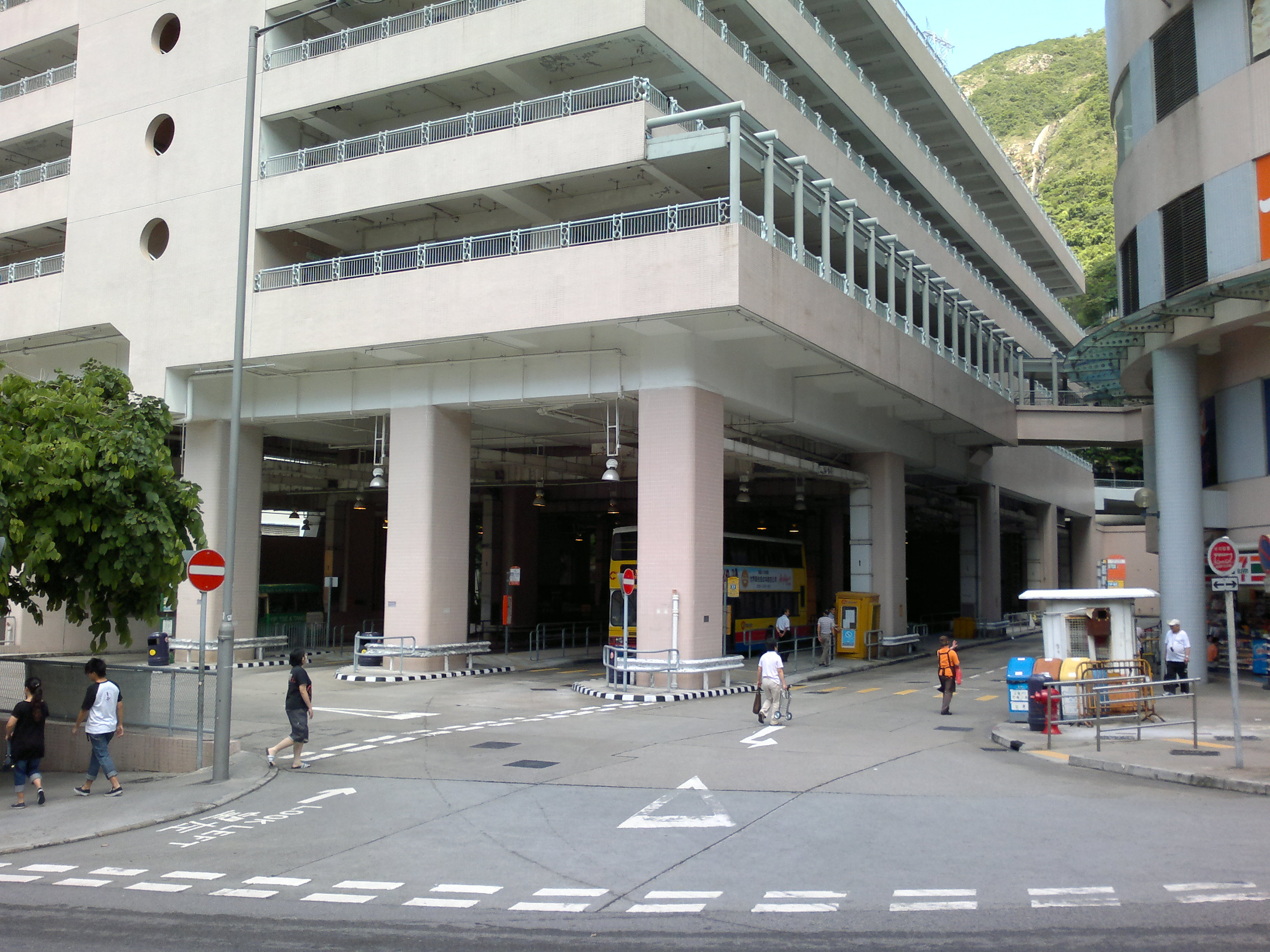 Tin Wan Bus Terminus